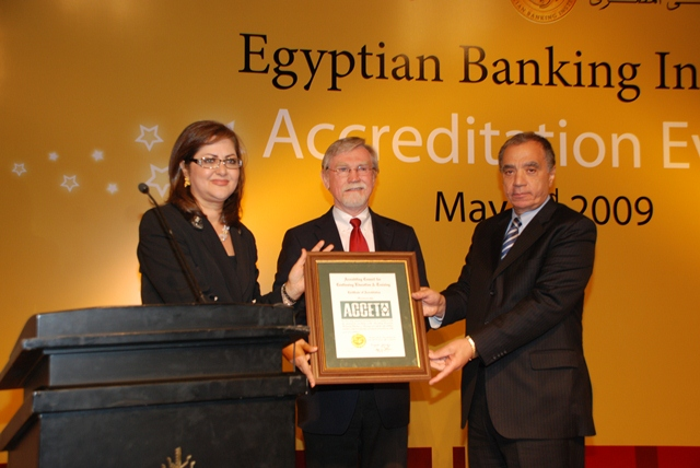 د. هالة السعيد تتسلم شهادة الاعتماد الدولي (ACCET) التي حصل عليها المعهد المصرفي المصري